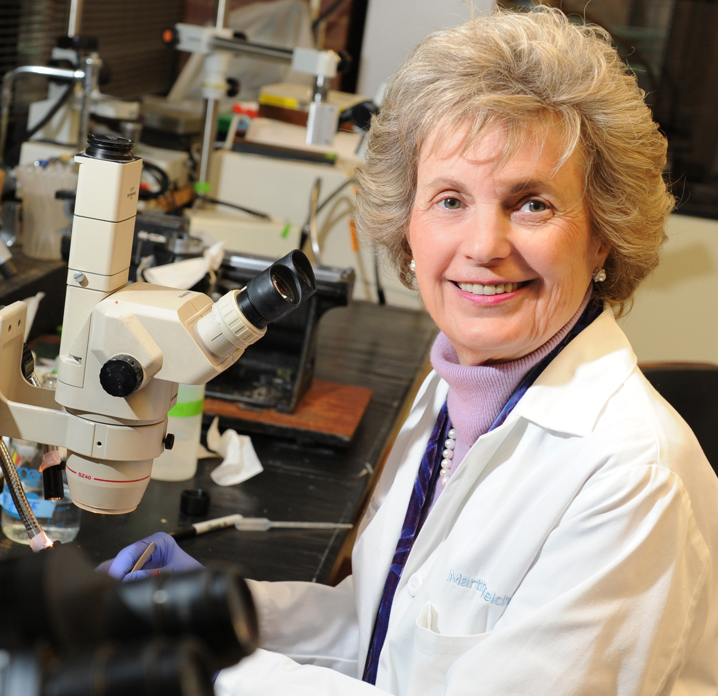 Martha G. Welch conducting research for the Nurture Science Program at Columbia University Medical Center, Dept. of Pediatrics